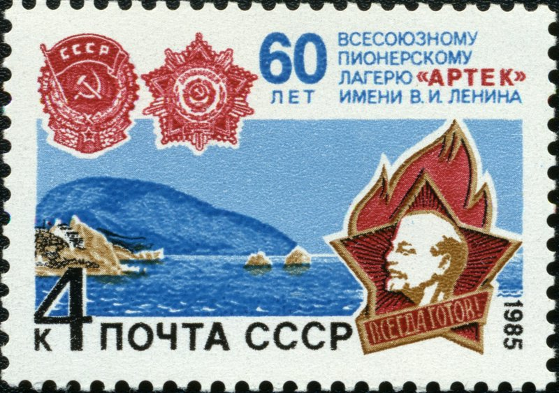 A USSR stamp, 60th Anniversary of Artek Pioneer Camp. Date of issue: 16th June 1985. Designer: N. Vettso. Michel catalogue number: 5523. 4 K. multicoloured. Pioneer badge, Artek camp and its orders.